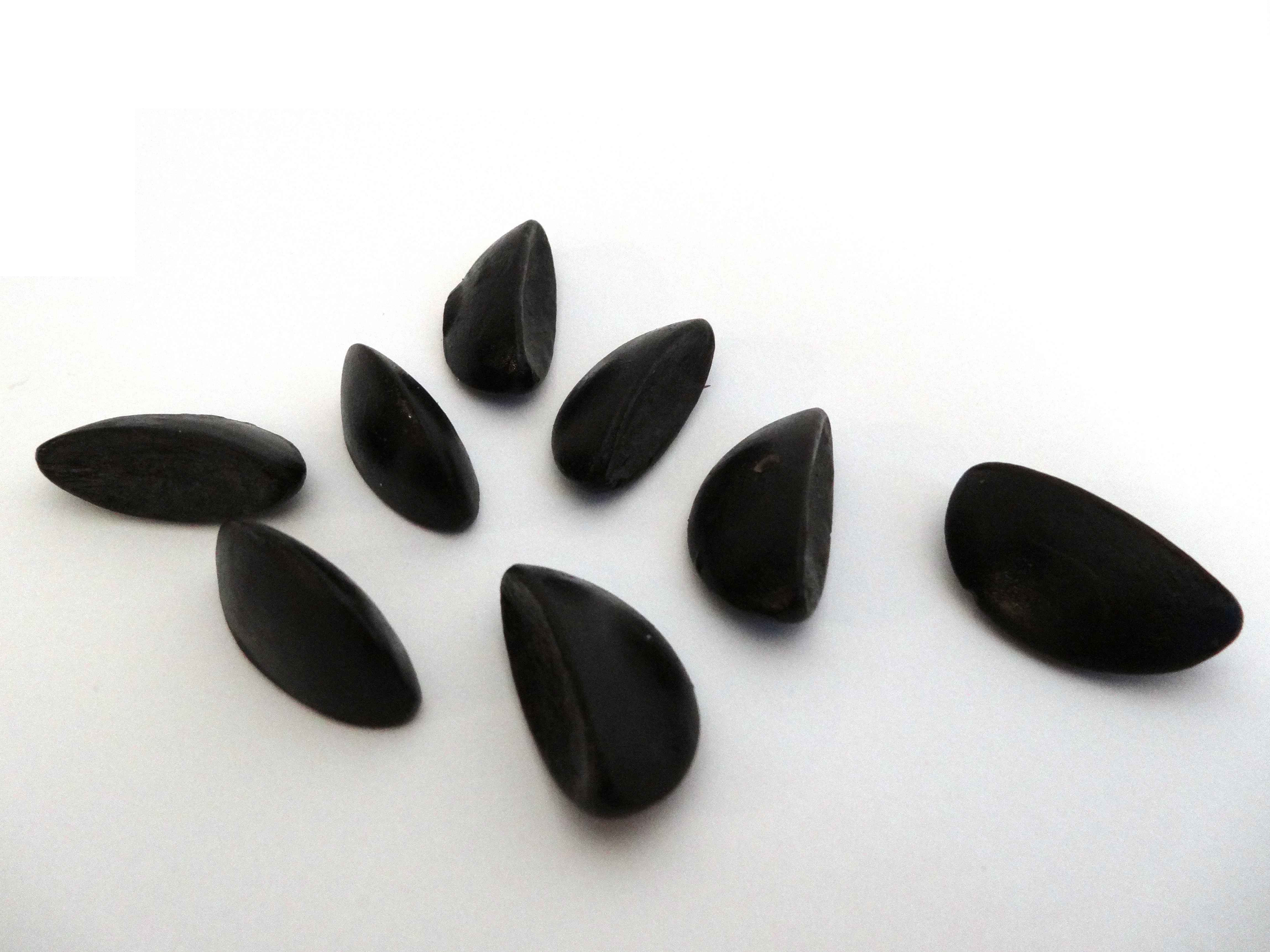 "Licorice boats", a type of Swedish candy.